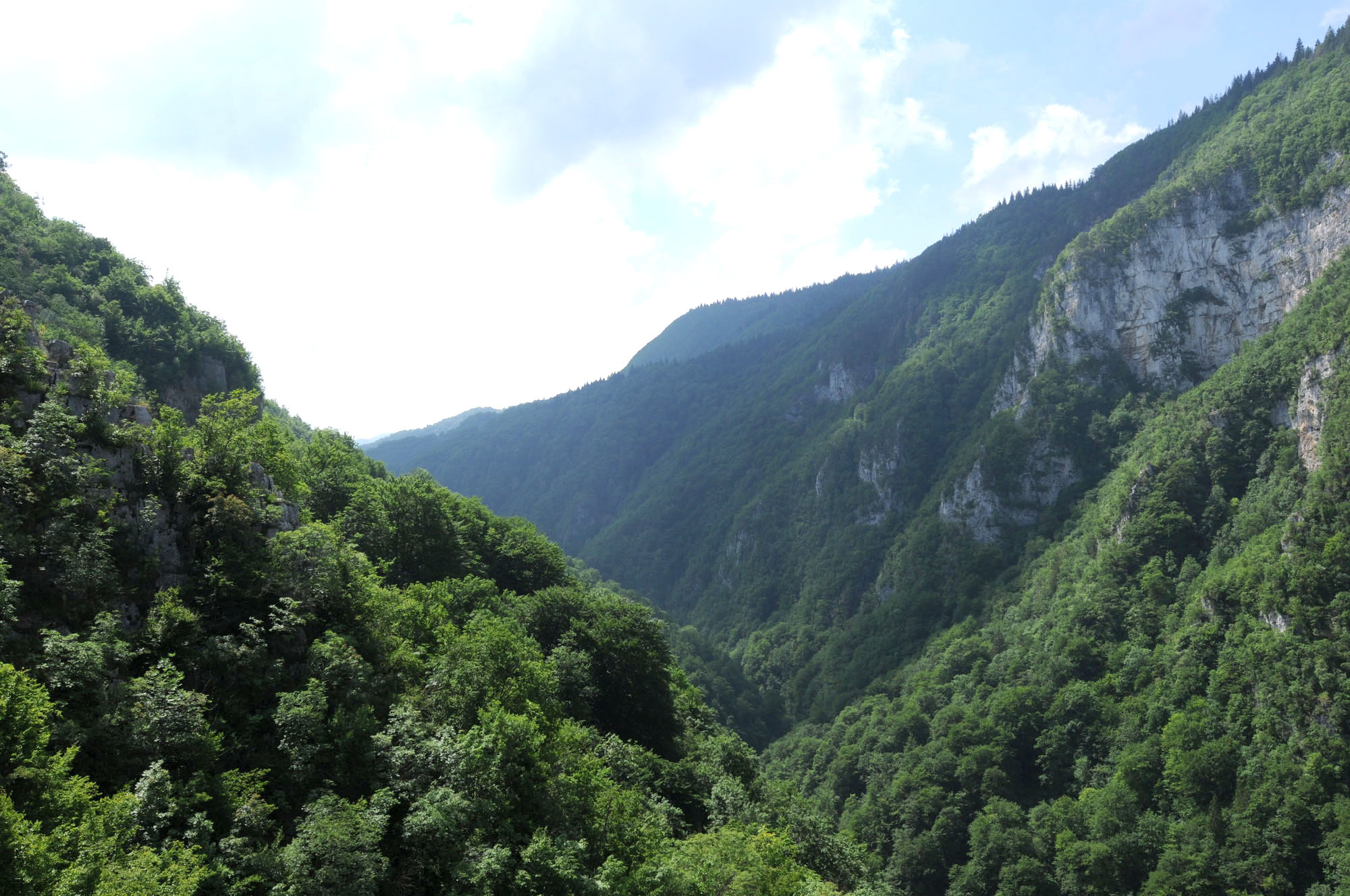 Canyon of River Ugar in Kneževo municipality, Bosnia and Hercegovina. Hornjoserbsce: Kanjon rěki Ugar w gmejnje Kneževo, Bosniska a Hercegowina.